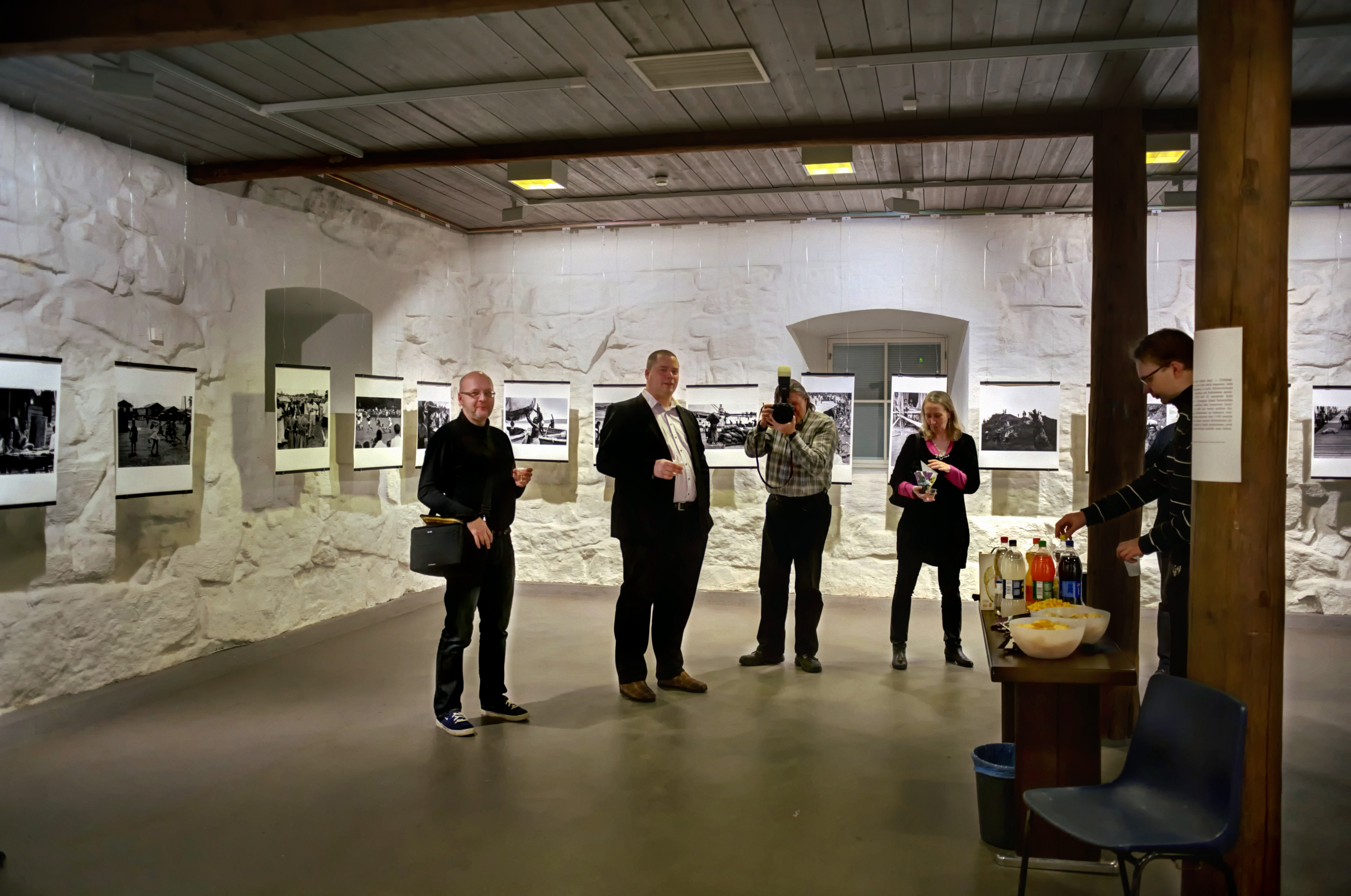 Galleria Pihatto 7.1.2015